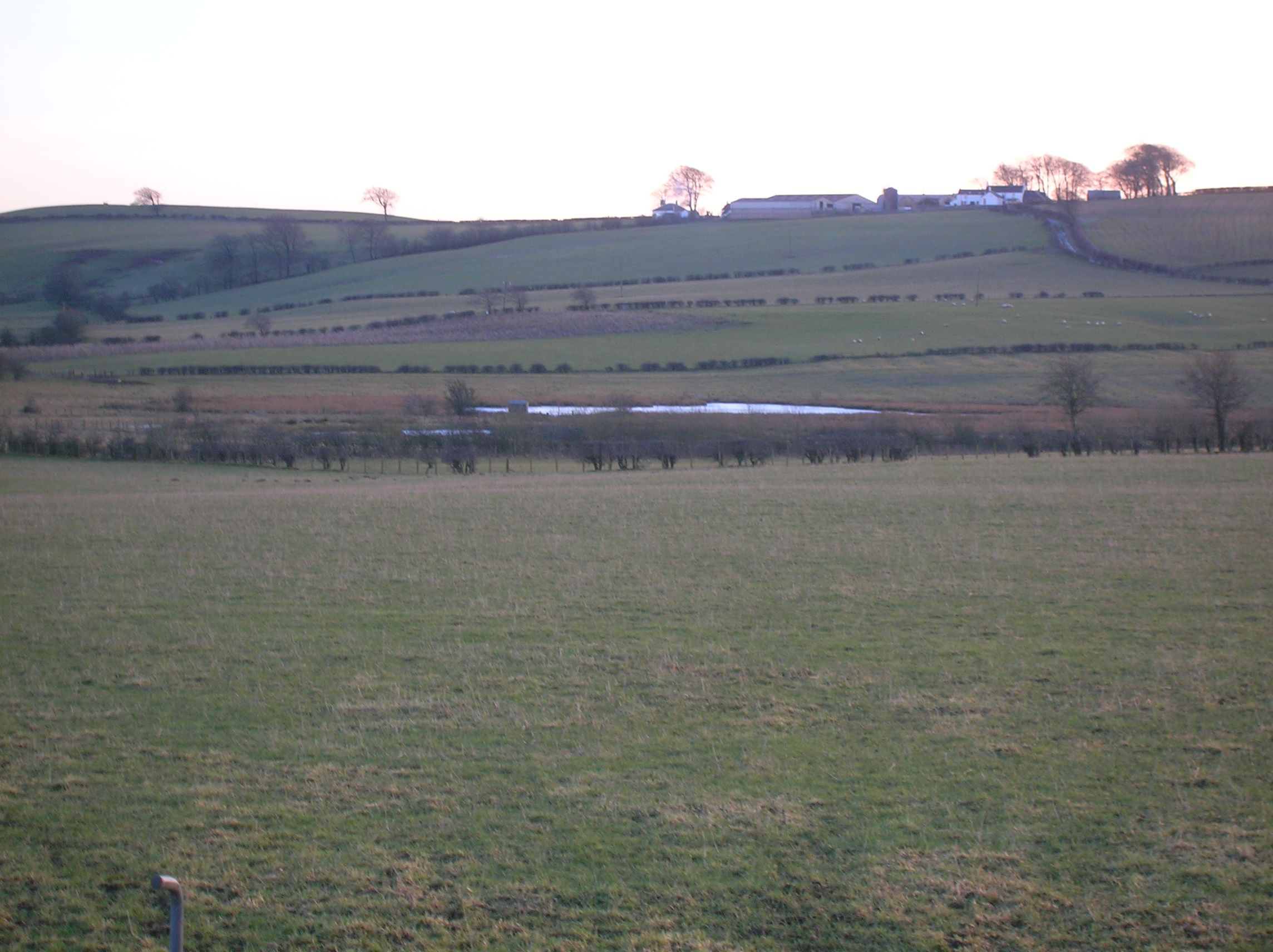 The remains of Loch Brown, East Ayrshire, Scotland. Skeoch Farm in the background.